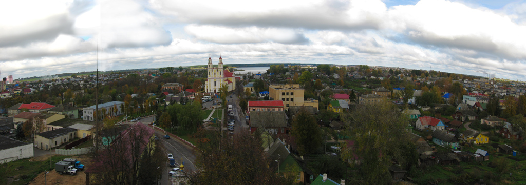 glybokoe panorama